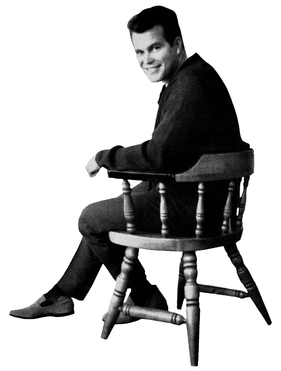 Trade ad for Randy Sparks' single "Julie Knows".To better adapt it to his respective Wikipedia article, the ad was cropped and cleaned in a graphics editing program. The original can be viewed at the source below.